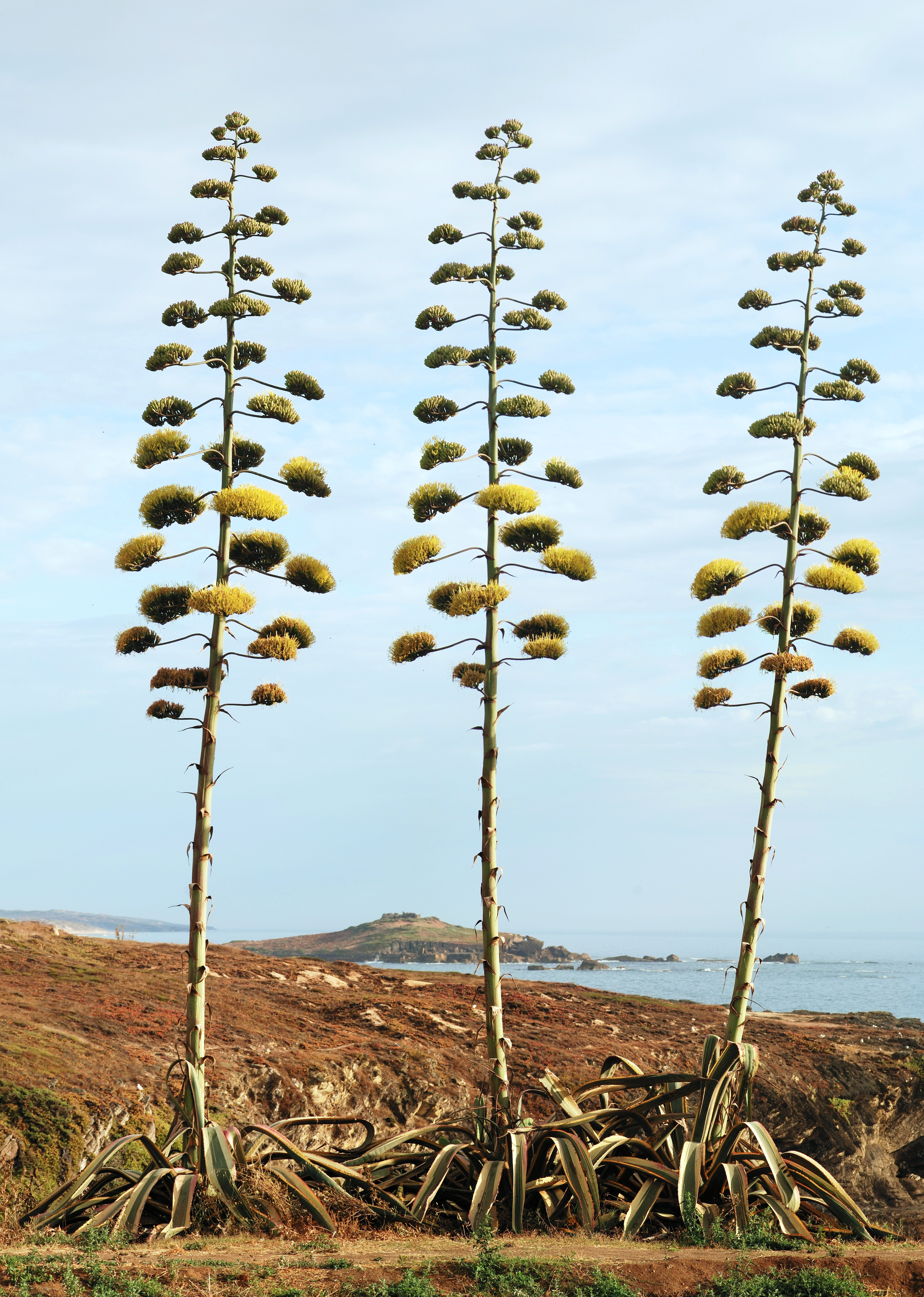 Agave americana in bloom. Porto Covo, Portugal